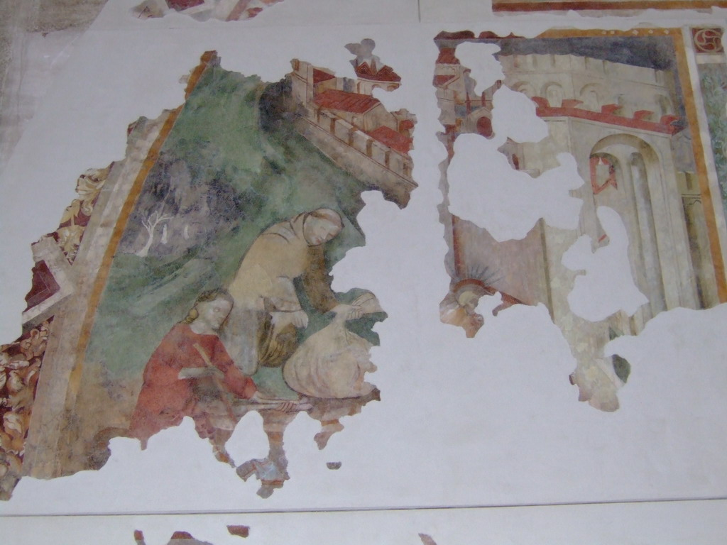 Church of Saint Francis - Udine